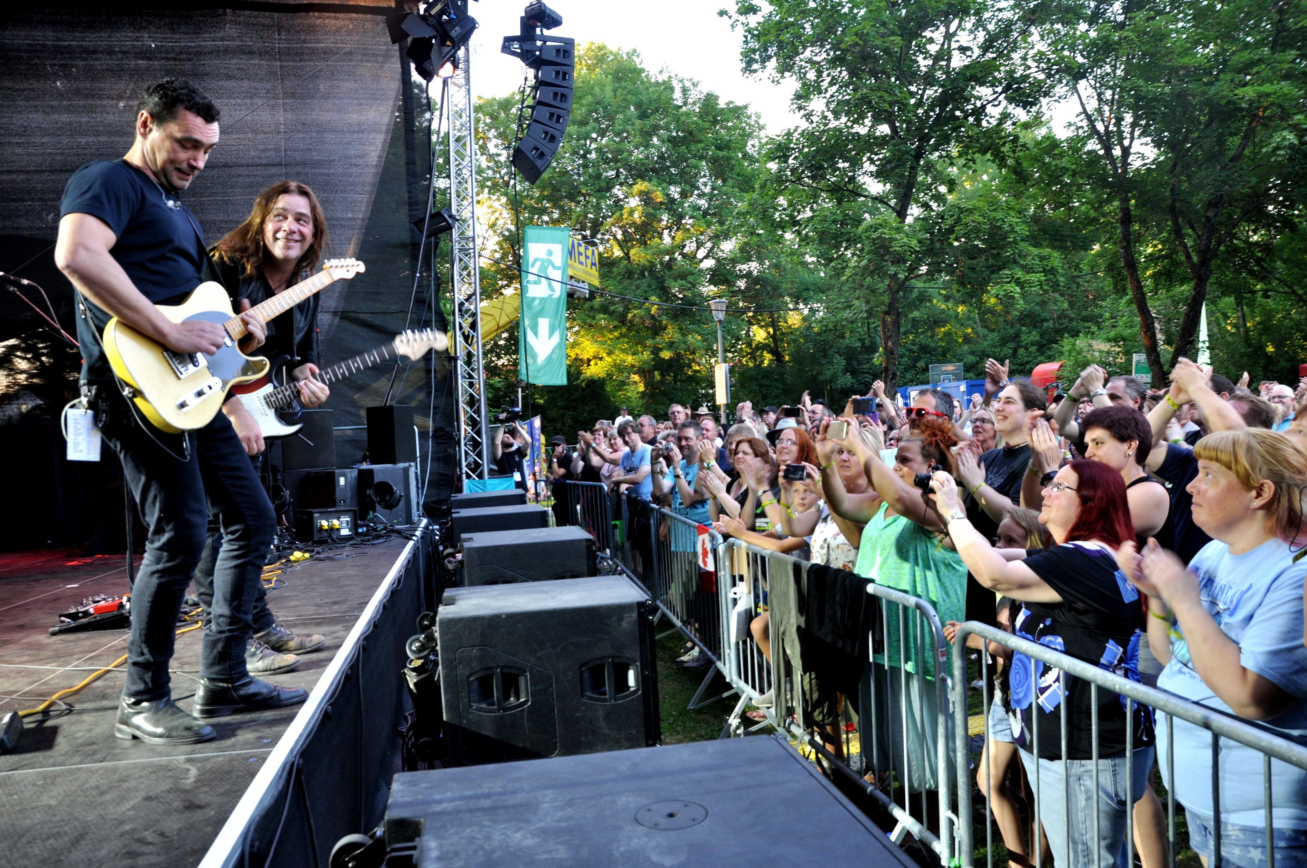 Alan Doyle and band (CAN) appearance at the 2017 blacksheep festival at Bonfeld castle, Bad Rappenau, Baden-Wuerttemberg, Germany Festivalsommer This photo was created with the support of donations to Wikimedia Deutschland in the context of the CPB project "Festival Summer".